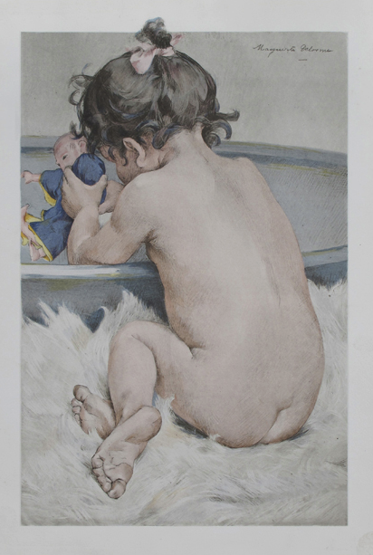 La Poupée by Marguerite Delorme, lithographic print from L'Estampe moderne, vol. II, Paris, F. Champenois.